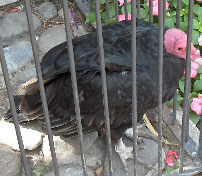 Species Cathartes aura Family Cathartidae